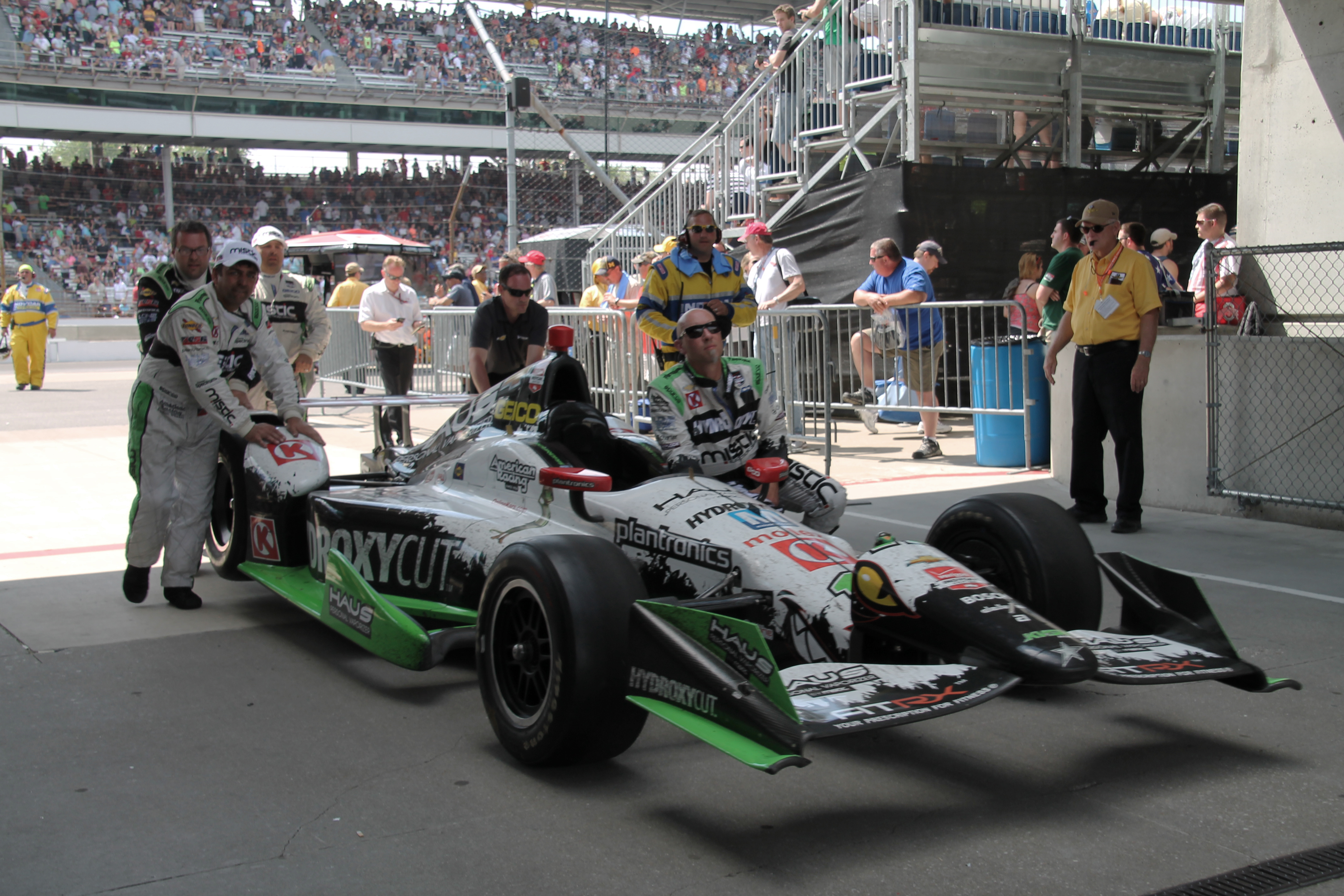 Sebastien Bourdais #11 after the 2015 Indianapolis 500